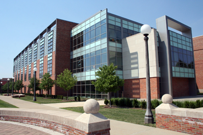 This is the modern Micro and Nanotechnology laboratory.